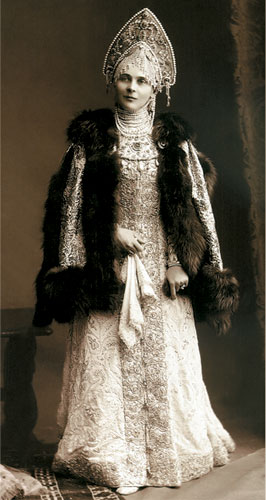 Zinaida Yusupova at the Romanov Anniversary Ball in 1903